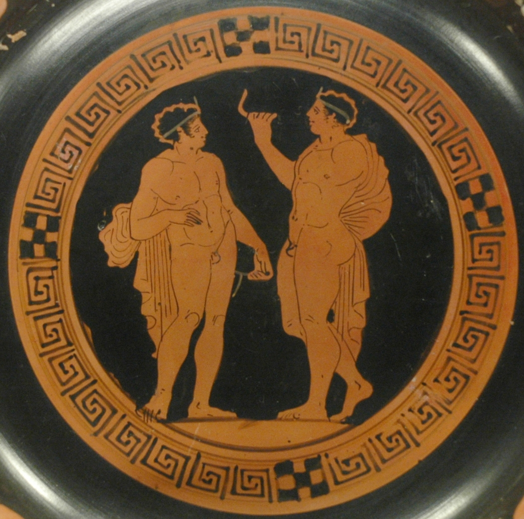 Athletes. Interior of an Attic red-figure cup, ca. 400–375 BC, found in Nola.